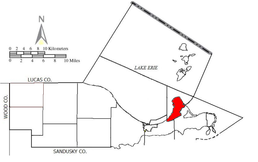 Made by the US Census and modified by me